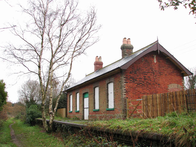 Former Felmingham Station, Norfolk